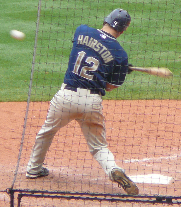 Please attribute this photo by name if used in places other than Wikipedia. 06:42, 29 May 2008 . . Chrisjnelson . . 618×706 (515 KB)